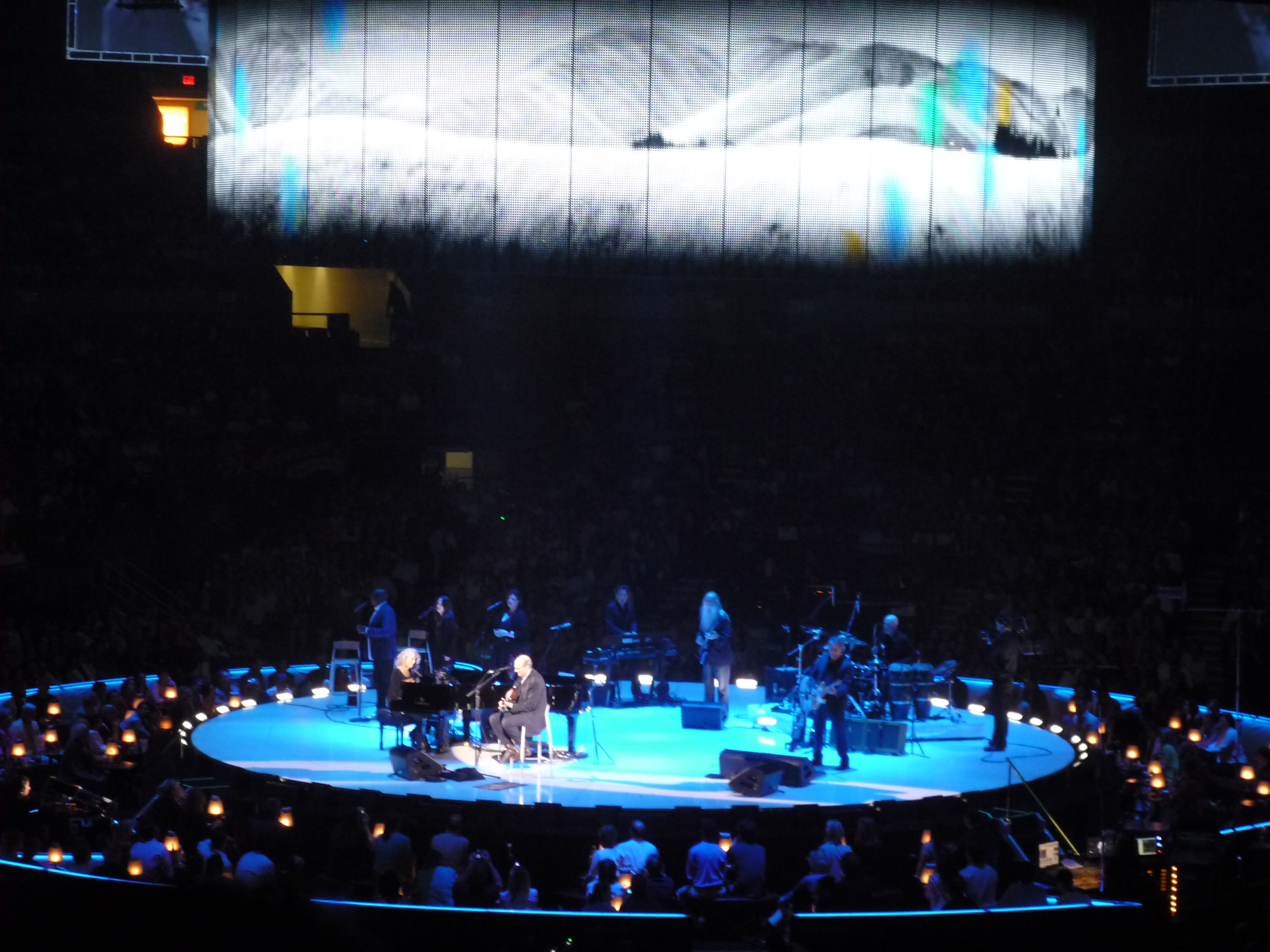 "Carolina in My Mind" being performed by James Taylor (seated, front left) during his and Carole King's Troubadour Reunion Tour, early in the first set at a show in Madison Square Garden in New York.